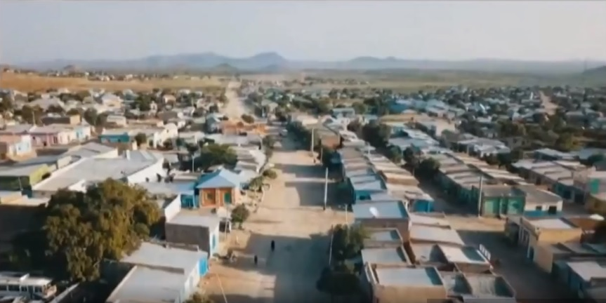 Photo of Aw Barre town centre